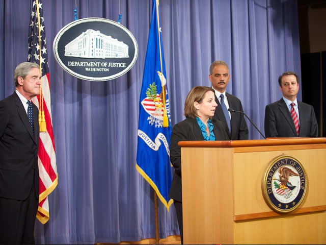 Lisa Monaco announces information related to charges for a plot directed by elements of the Iranian government to murder the Saudi Ambassador to the United States